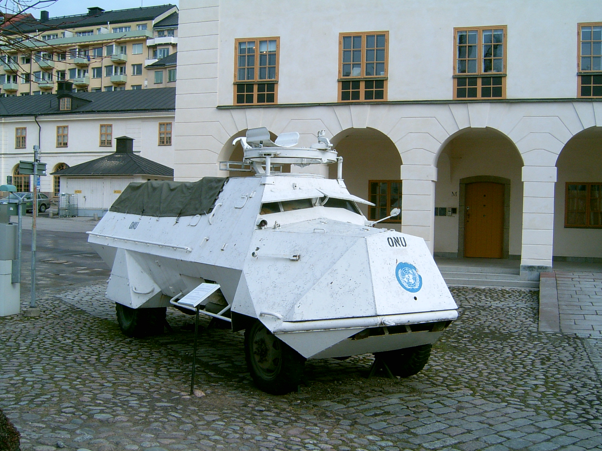 KP transport vehicle at Swedish Army Museum in Stockholm. This model was used by the Swedish Armed Forces between 1942-1999 and a total of 500 was made by Volvo and Scania. This specific example was never in Congo, but was painted white before a Swedish Congo Veterans jubilee.